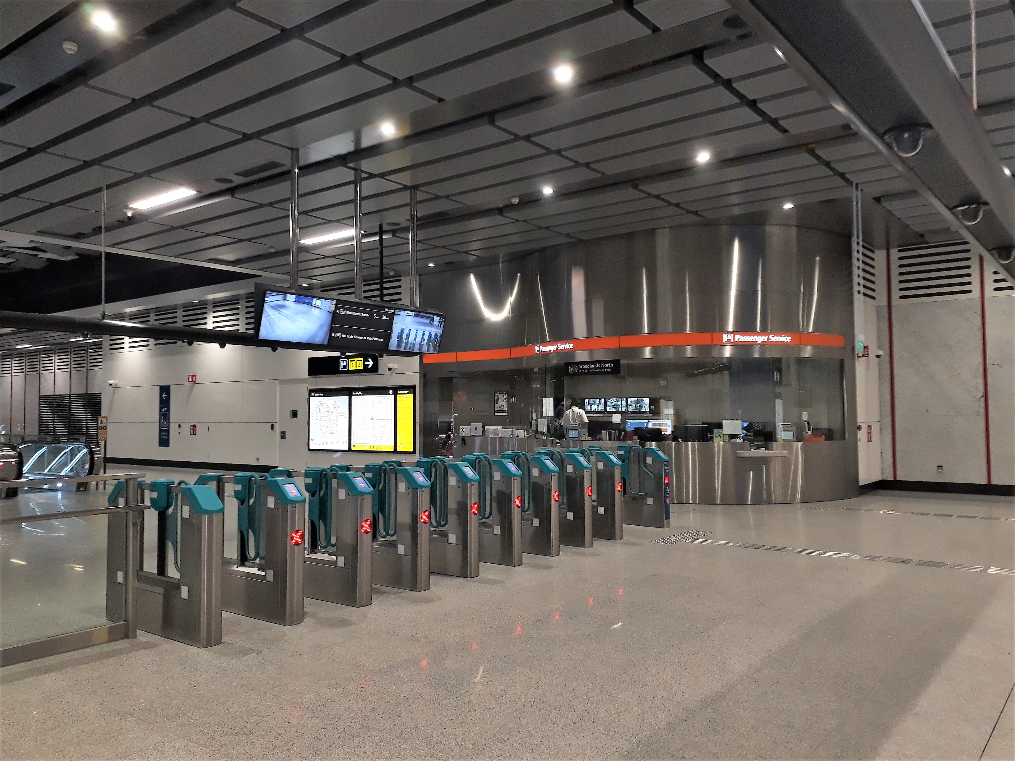 Passenger service centre at Woodlands North